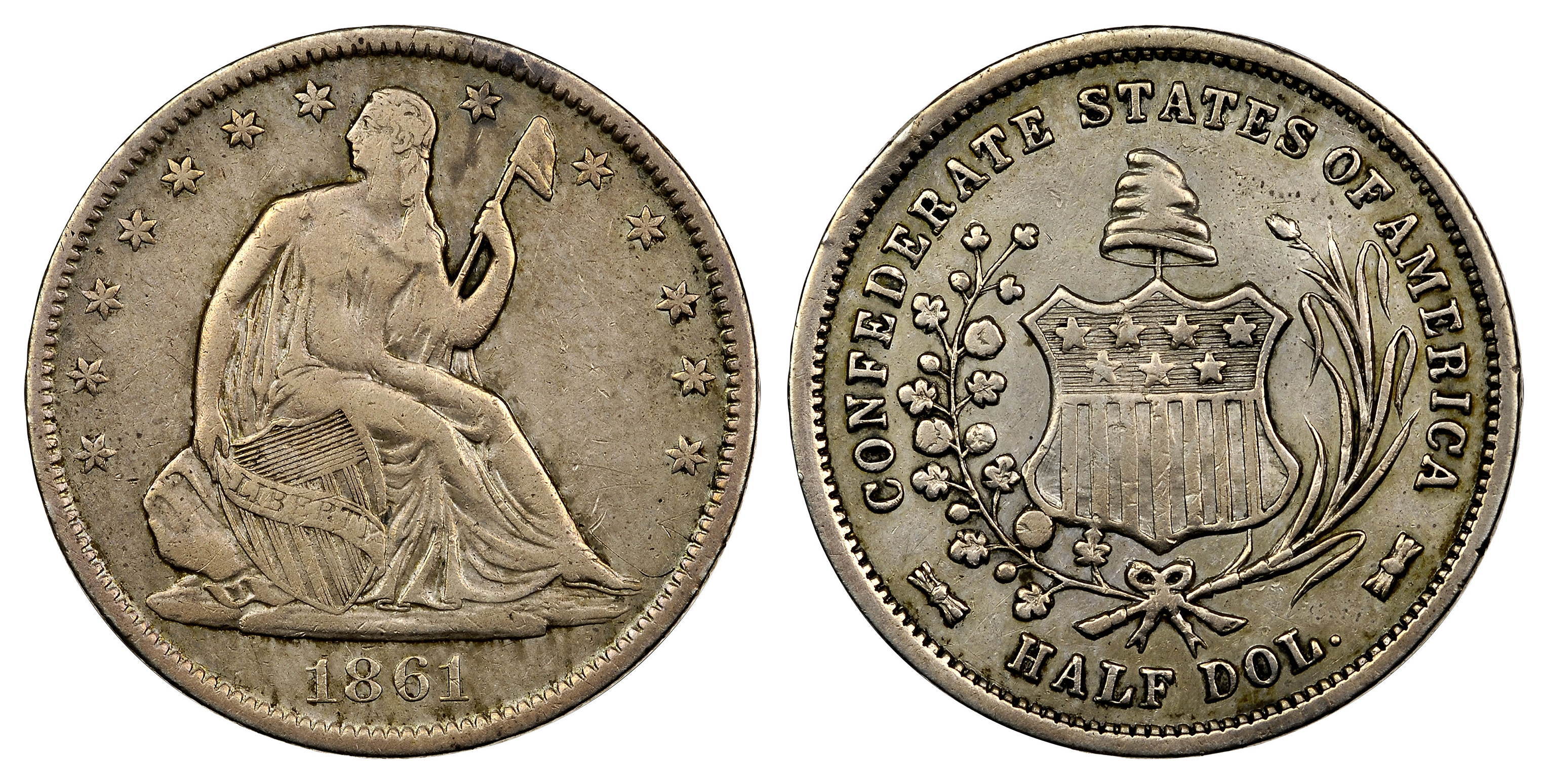 1861 50C Original Confederate Half Dollar(1216-5847)Only four examples were reported to have been struck, this example belonged to CSA President Jefferson Davis (see Heritage Auctions description).This was only struck at the New Orleans mint as a proof to see if the molds would release properly. The paucity of silver and gold in the Confederacy prevented its production.Obverse: Liberty seated and holding a Liberty pole. An arc of 13 stars has been reinterpreted to represent the 13 Confederate States (which unofficially included Kentucky and Missouri). This was a Confederate copy of the standard obverse used on the American silver half-dime, dime, quarter, and half-dollar from the 1830s to 1891 and the American silver dollar from 1840 to 1873.Reverse: A Liberty pole behind a modified Federal Shield with 7 stars in the chief over 7 pallets on a field, representing the original 7 Confederate States (South Carolina, Georgia, Mississippi, Louisiana, Alabama, Texas, & Florida). This is inset in a wreath of a crossed cotton plant (left branch) and tobacco plant (right branch), representing the South's two most important cash crops.